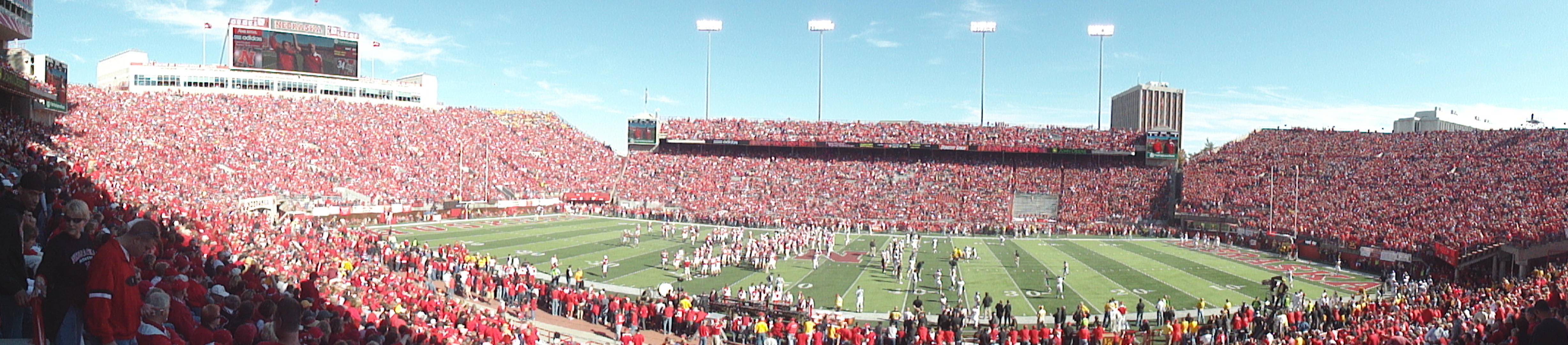 Game Day inside the stadium.